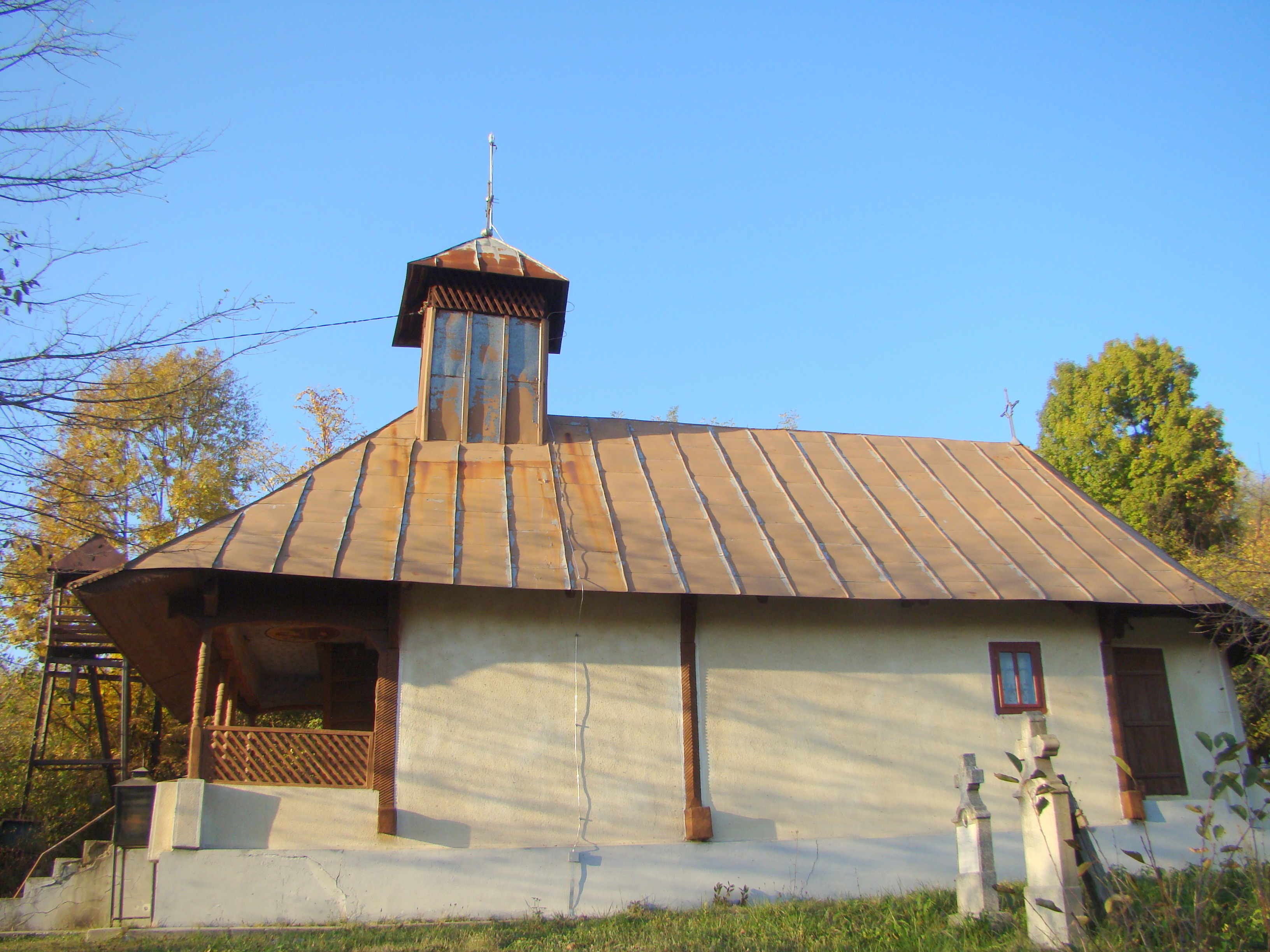 Wooden church in Horăști, Gorj county, Romania